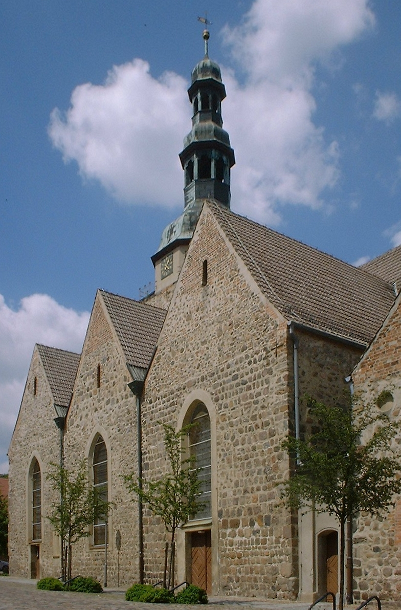 St. Mary's Church in Belzig, Germany